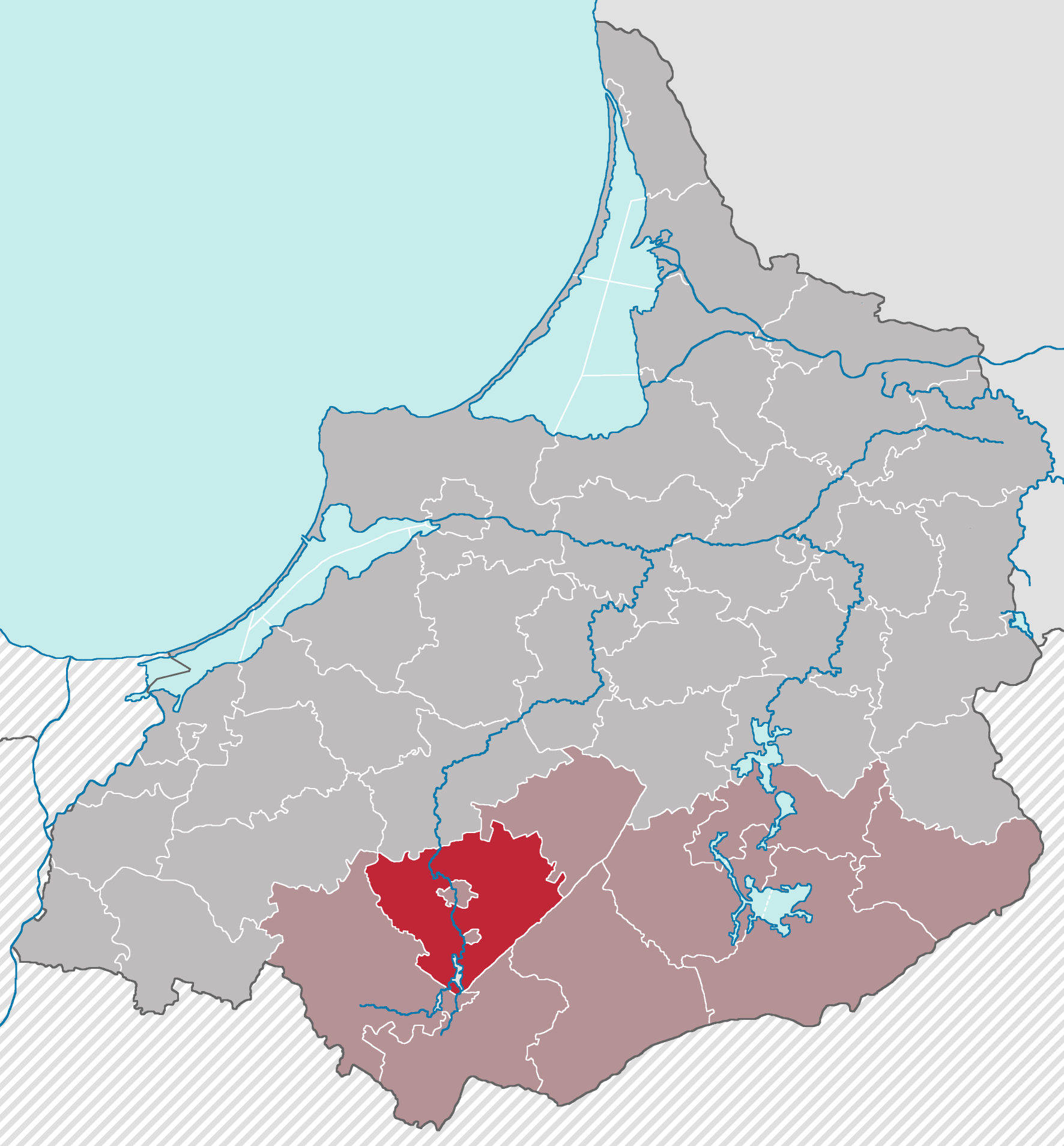 Locator map of Landkreis Allenstein in East Prussia with Borders of 31.08.1939 and administrative divisions of January 1945